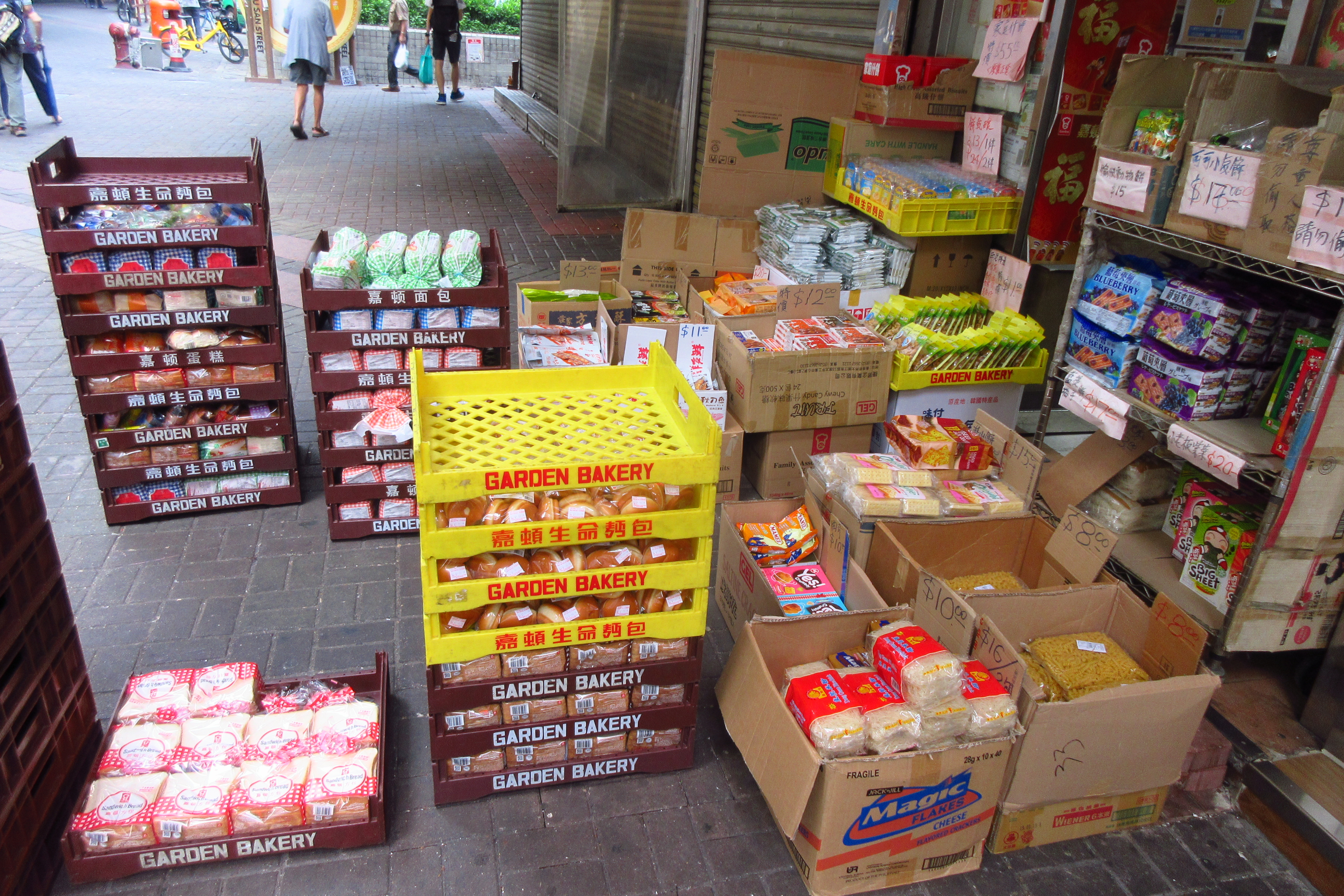 HK YL 元朗 Yuen Long 又新街 Yau San Street shop Garden Bread Bakeries logistics in June 2018